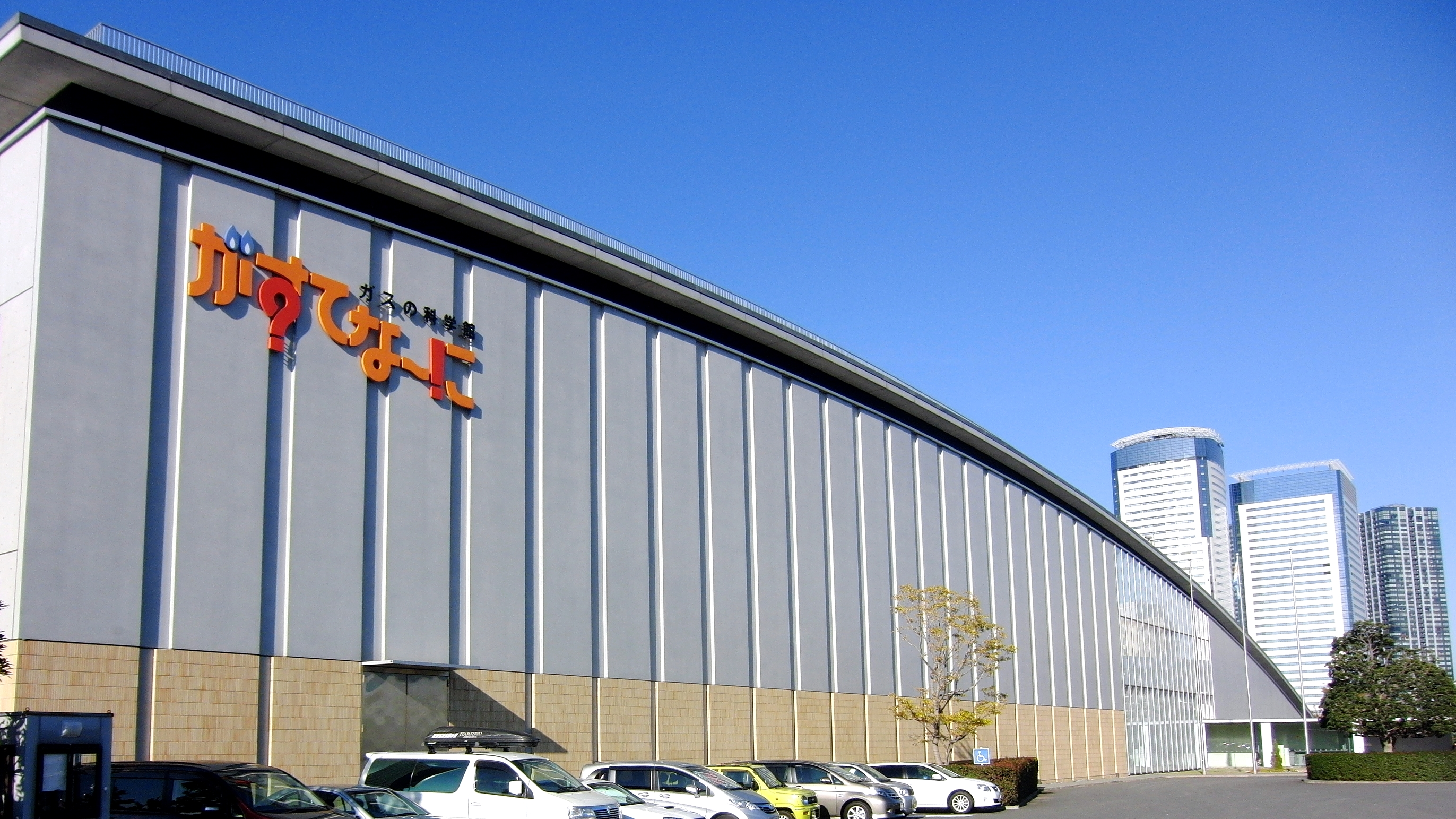 Gas Science Museum "GASUTENANI", Toyosu, Kōtō, Tokyo, Japan